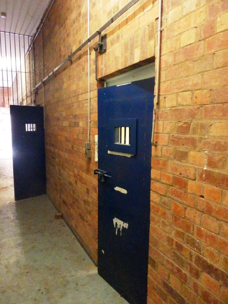 Western (central) cell block; passage, door to 2nd cell from SW (EHP, 2016)